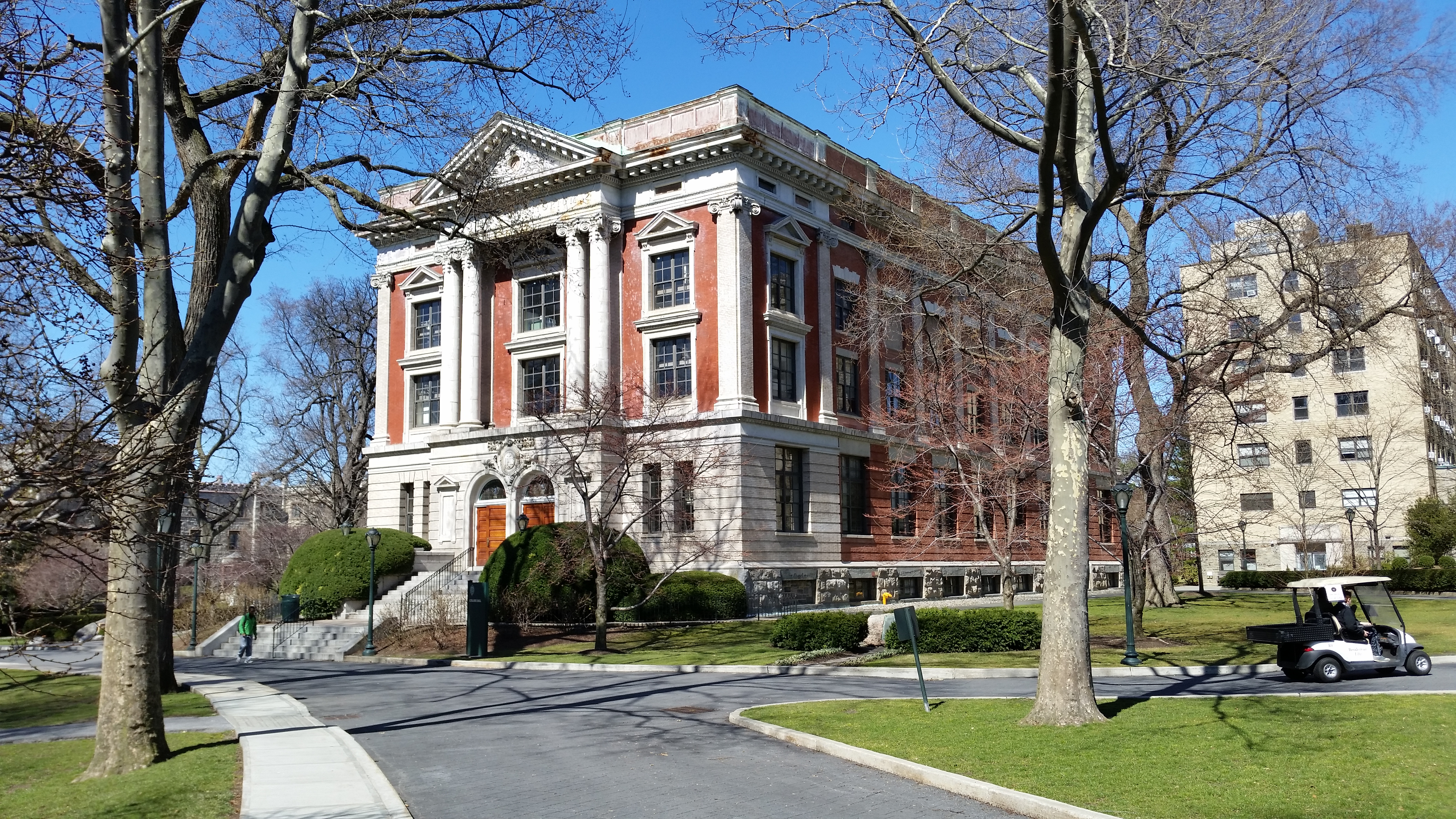 Collins Hall at Rose Hill, Fordham